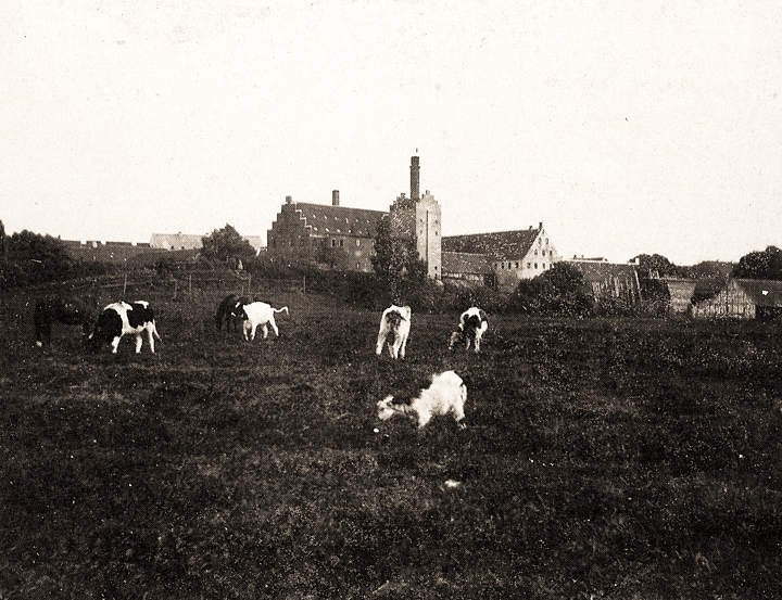 S.B. Lundberg's Maltfabrik, former malt factory in Ebeltoft, Denmark. Est. 1857